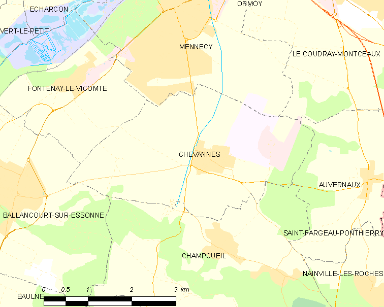 Map of French municipality Chevannes